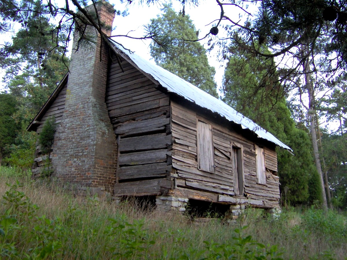 An old notched-log cabin at the Brabson's Ferry Plantation historic site (near Brabson Cemetery) on Indian Warpath Road in Boyd's Creek, Tennessee. The notched logs were later planked over, probably with planks from Brabson's sawmill.